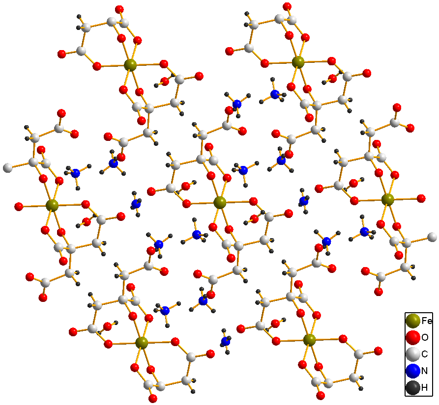 Ammonium ferric citrate dihydrate structure based on viewed along the c axis. The unit cell is close to 2x2x2, but cropped at the corners and expanded on the edge Fe atoms.